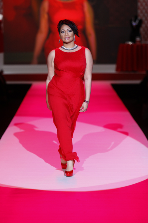 The Heart Truth® is a national awareness campaign for women about heart disease sponsored by the National Heart, Lung, and Blood Institute (NHLBI), part of the National Institutes of Health, U.S. Department of Health and Human Services (HHS). The Red Dress®, introduced by the NHLBI in 2002, is the national symbol for women and heart disease awareness. Visit for information on women and heart disease. ®, TM The Heart Truth, its logo and The Red Dress are trademarks of HHS. Participation by Mercedes-Benz Fashion Week, Diet Coke, Swarovski, Tylenol, St. Joseph's Aspirin, Bobbi Brown, and Brian Atwood does not imply endorsement by HHS.